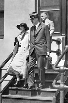 John and Florence Brownlee leaving the Edmonton courthouse at which John was being sued for seduction.